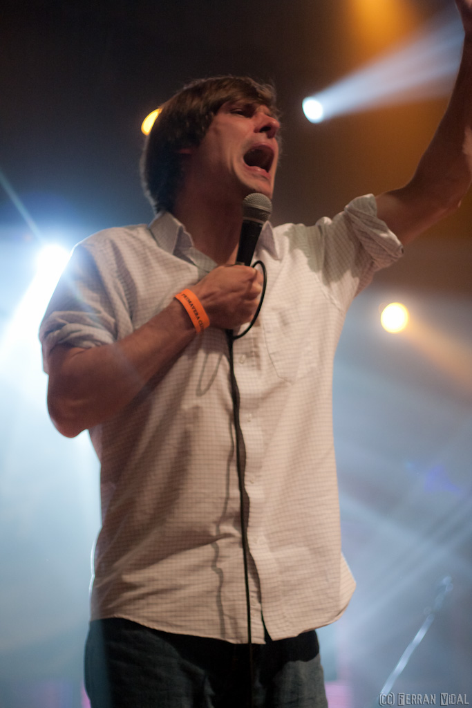 John Maus during a live show in 2011